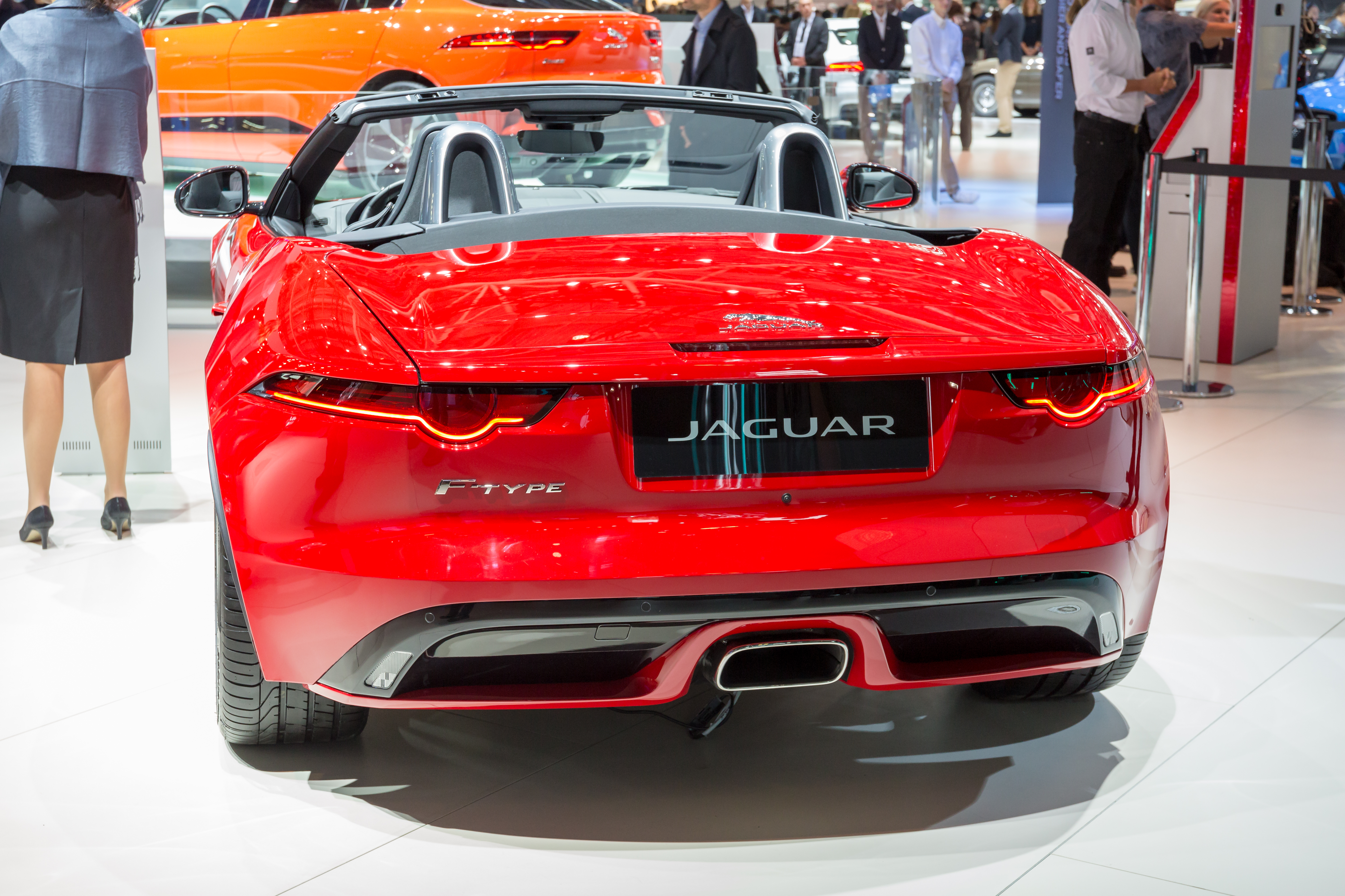 Jaguar F-Type Roadster P300 at Mondial Paris Motor Show 2018